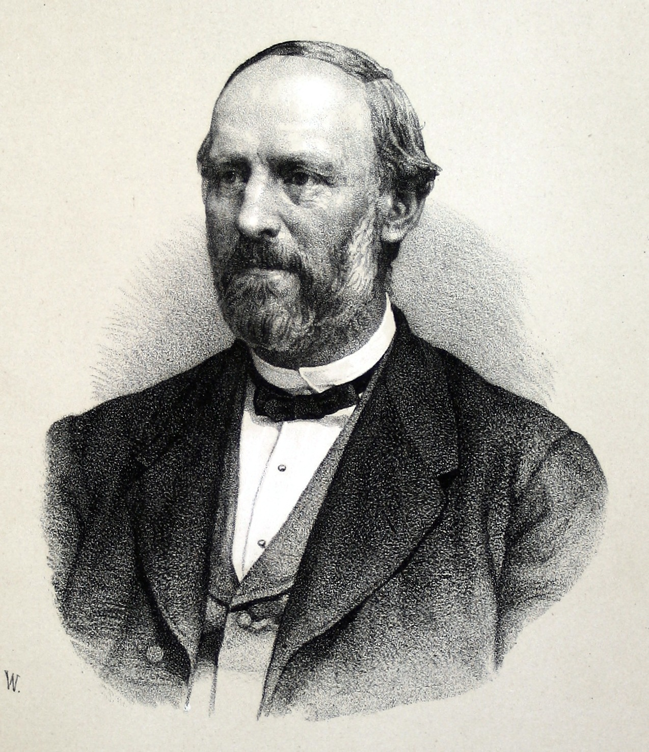 Portrait of Carl Frans Lundström from the book "Svenska industriens män" (1875)